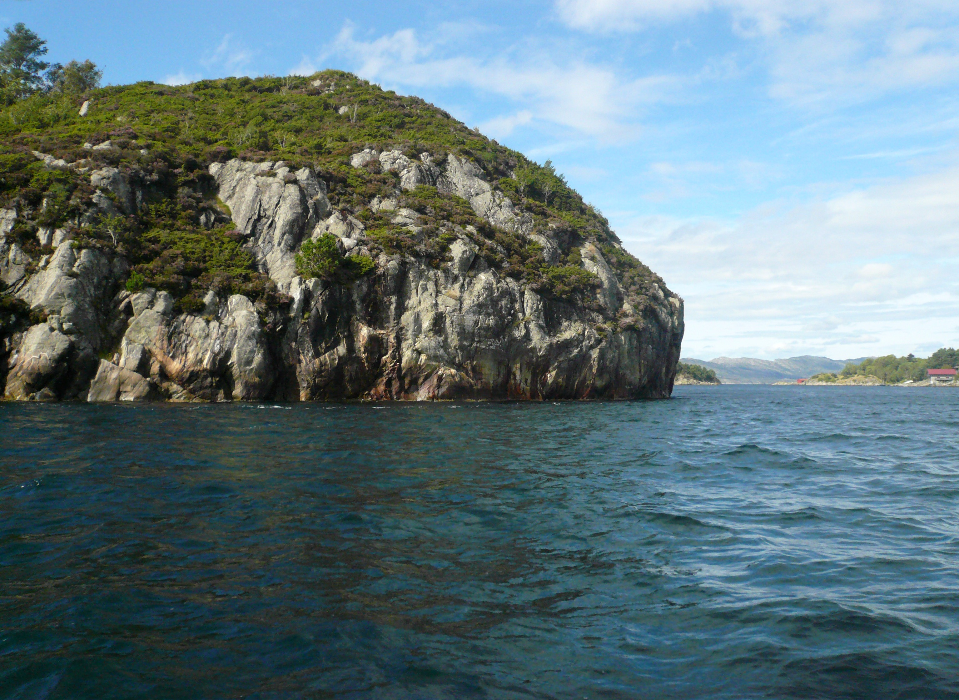 Store Bukken, Bukkasundet